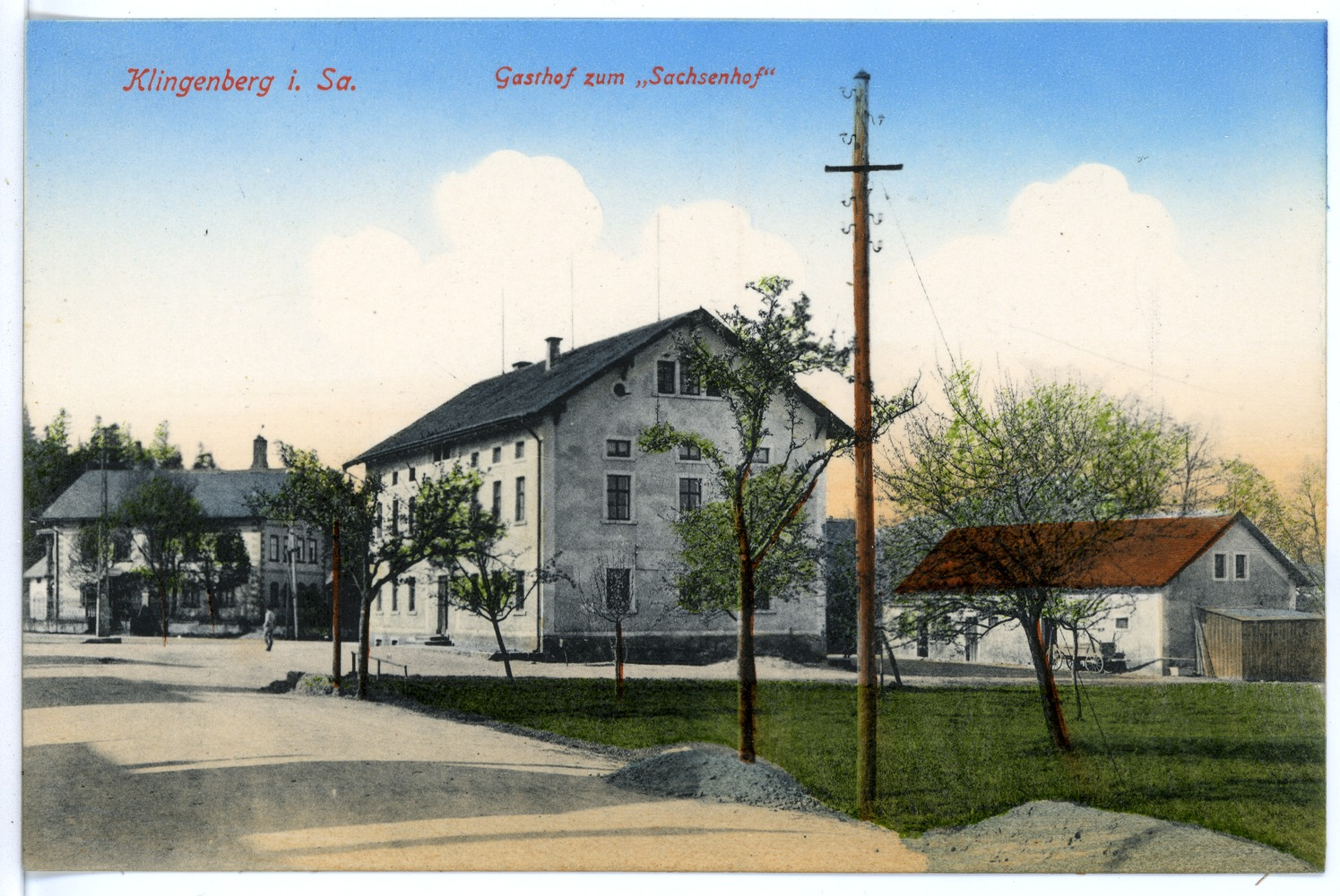 This postcard is from publisher Brück & Sohn in Meißen ( This postcard has a unique number 15694 and is available in a higher resolution at the publisher. This images was uploaded in a cooperation project between Wikipedians and the publisher.